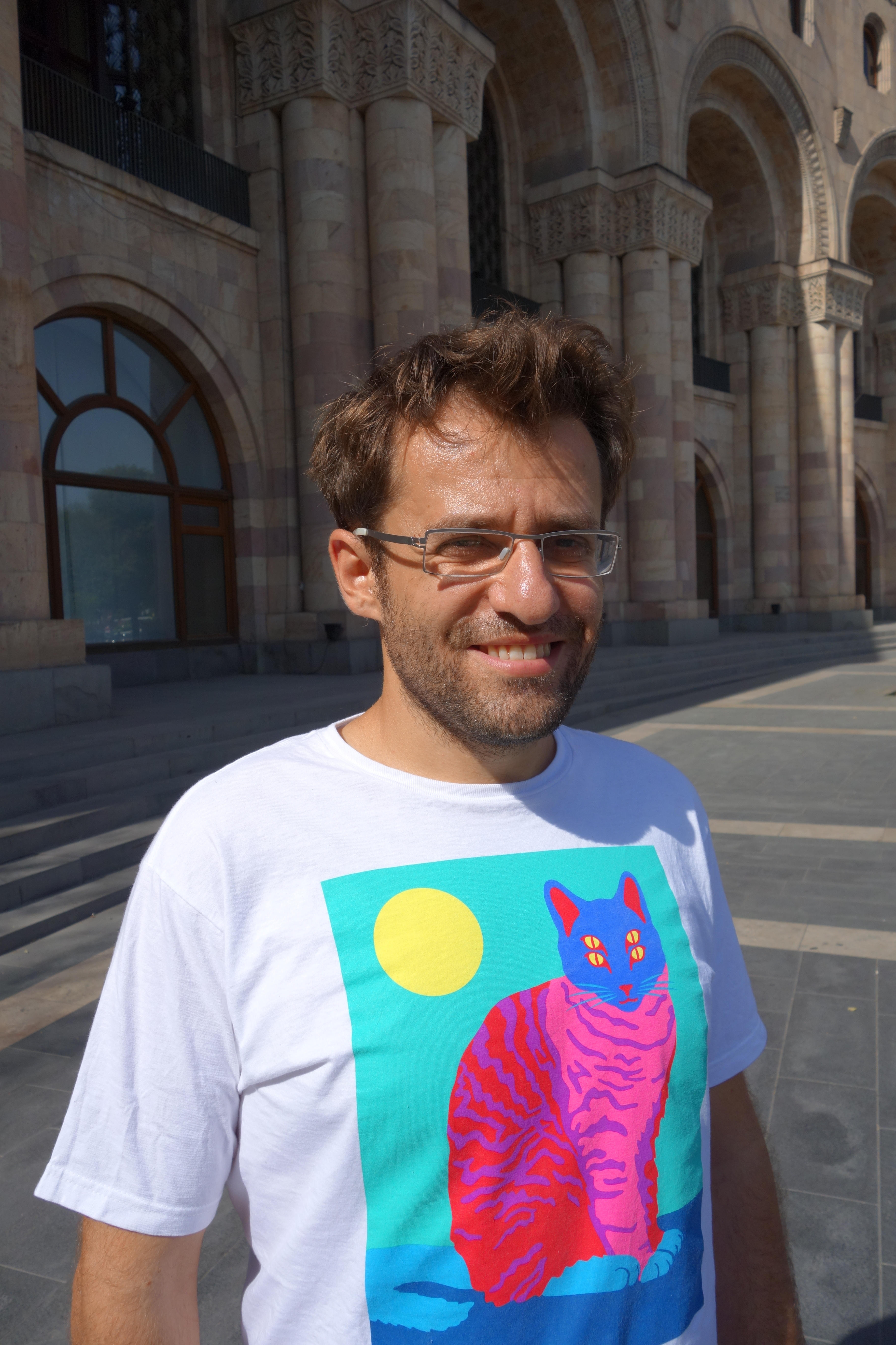 Levon Aronian in at the Republic Square in Yerevan Portrait